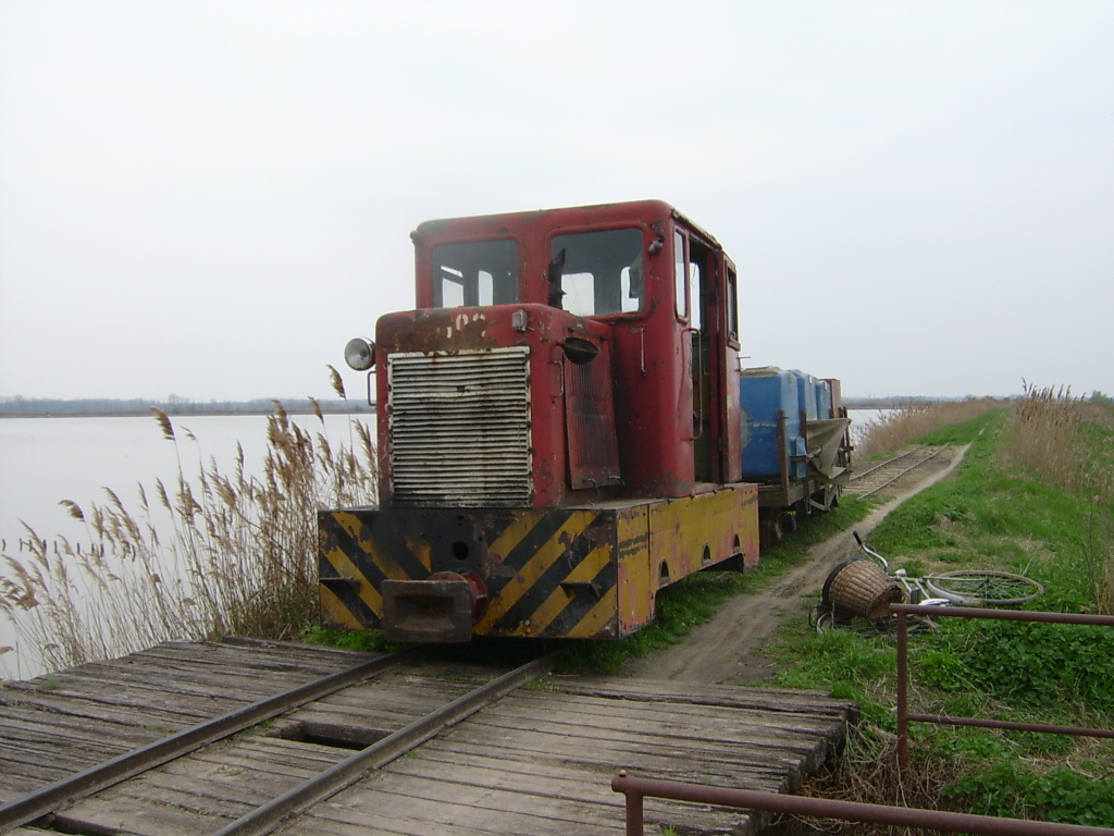 C–50 typ. narrow gauge lokomotiv in the Tömörkény Fish Farm Railway, Hungary